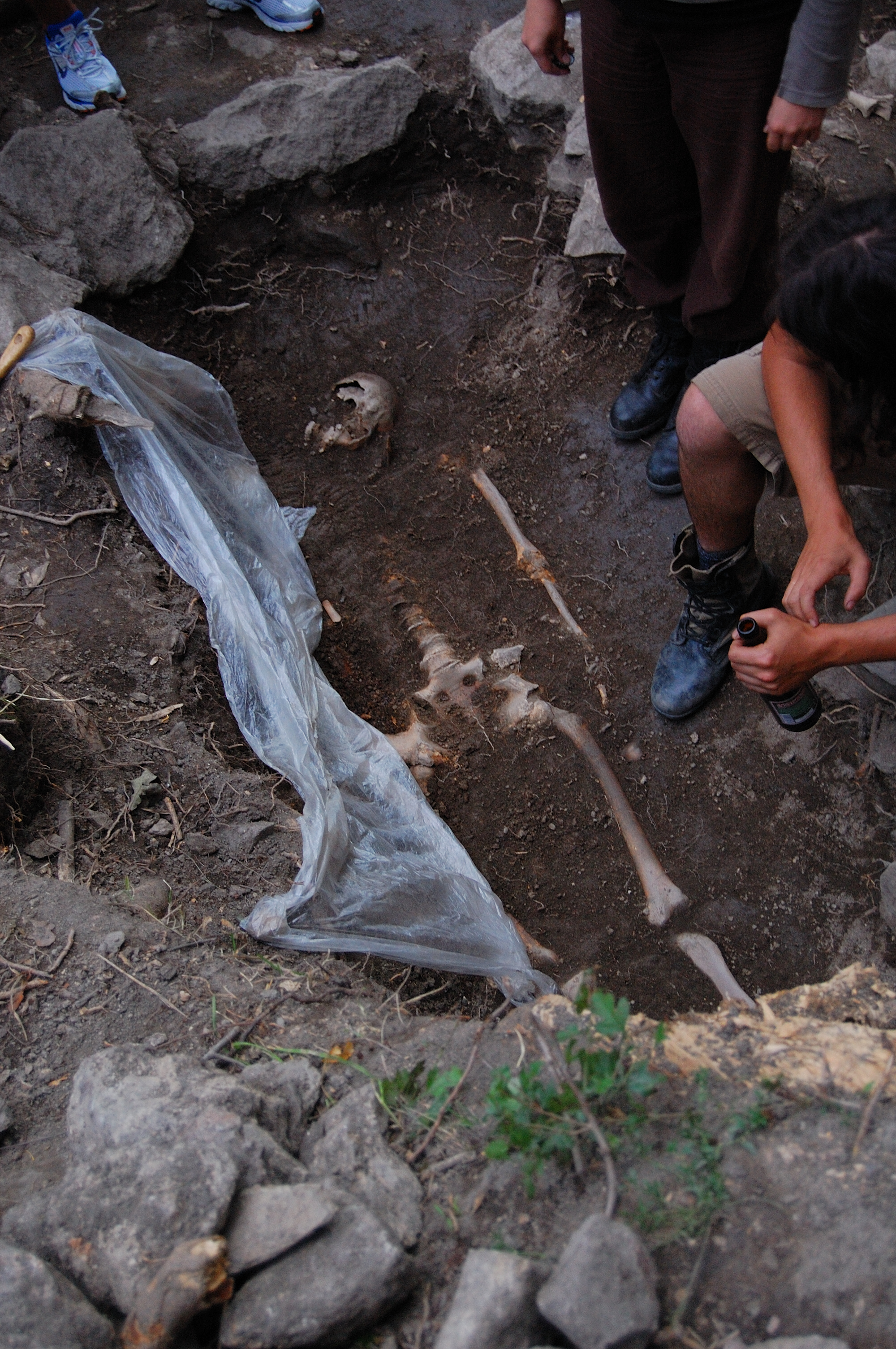 Archeological excavations in Netolice, Czech Republic.